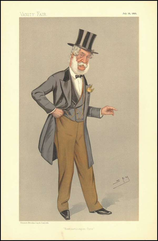 Statesmen No.615: Caricature of Mr Charles Frederick Hamond MP. Caption reads: "Newcastle-upon-Tyne"